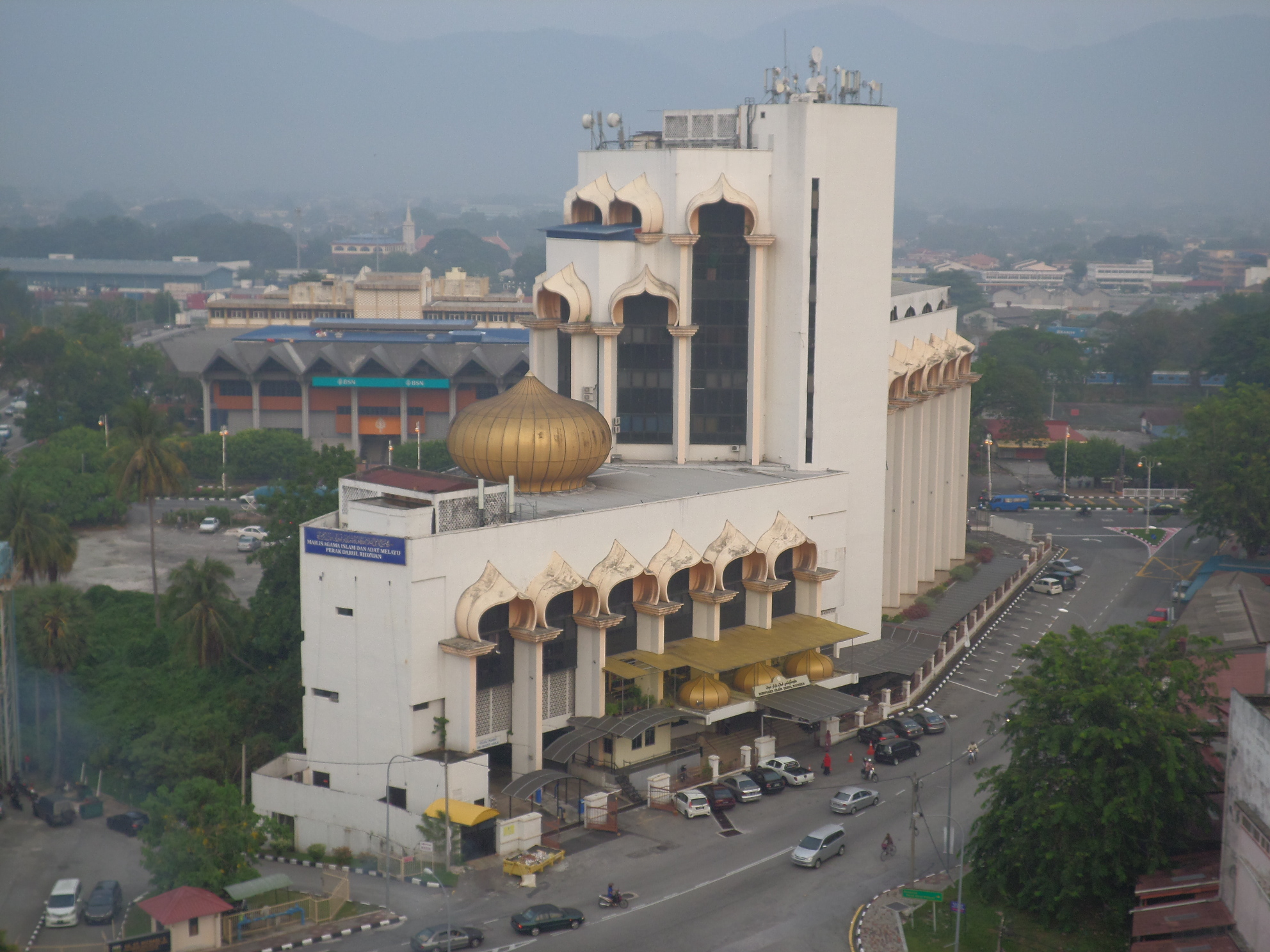 Perak Council of Islamic Religion and Malay Customs, Ipoh, Kinta, Perak, Malaysia